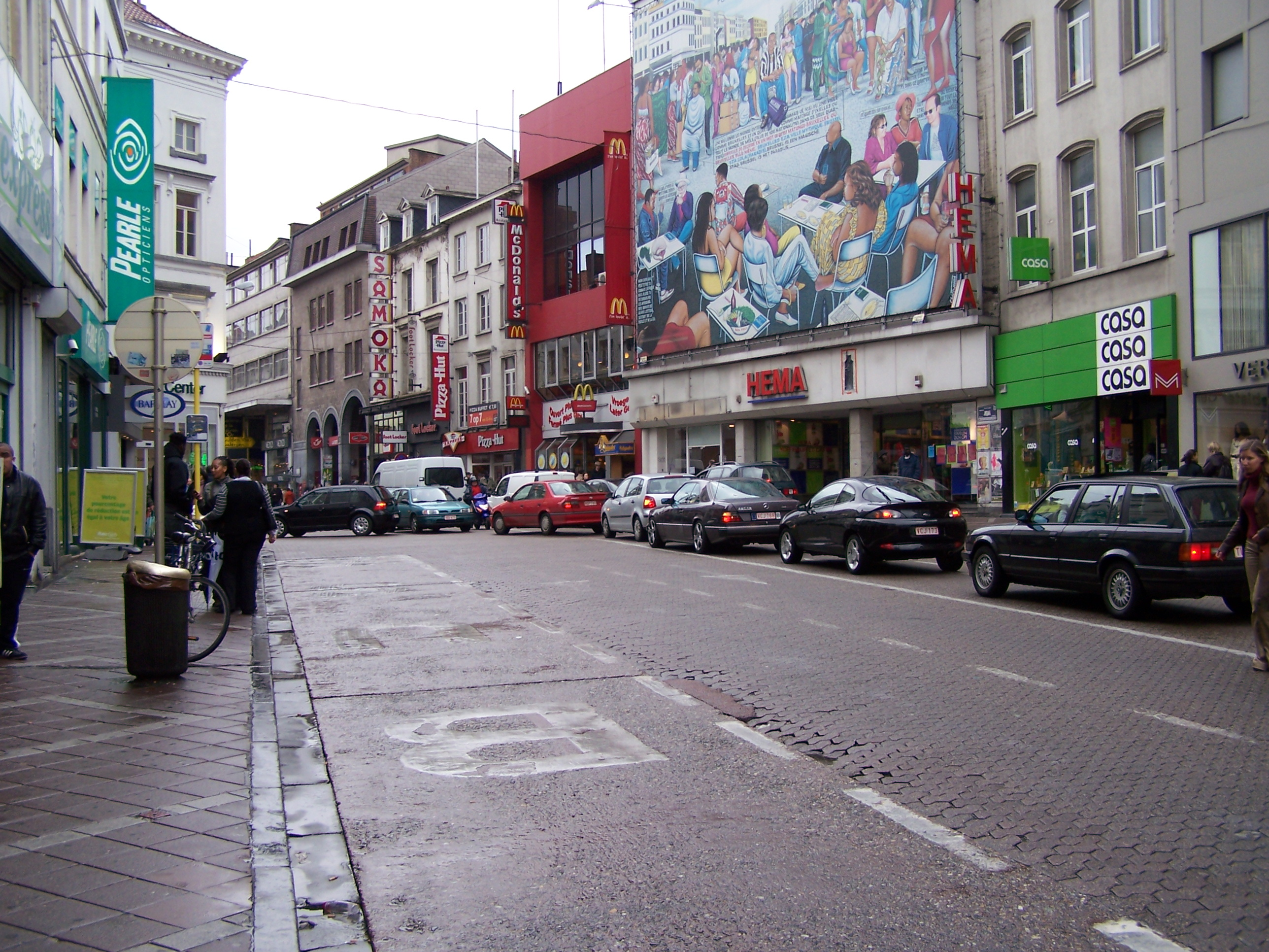 Shopping district near the Naamse Poort in Ixelles